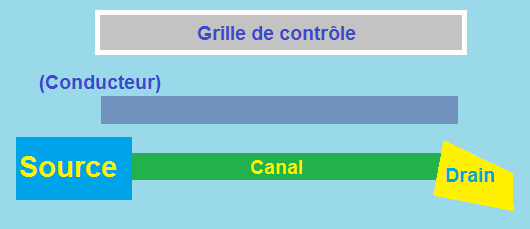 Schéma de fonctionnement d'une mémoire à grille continue.